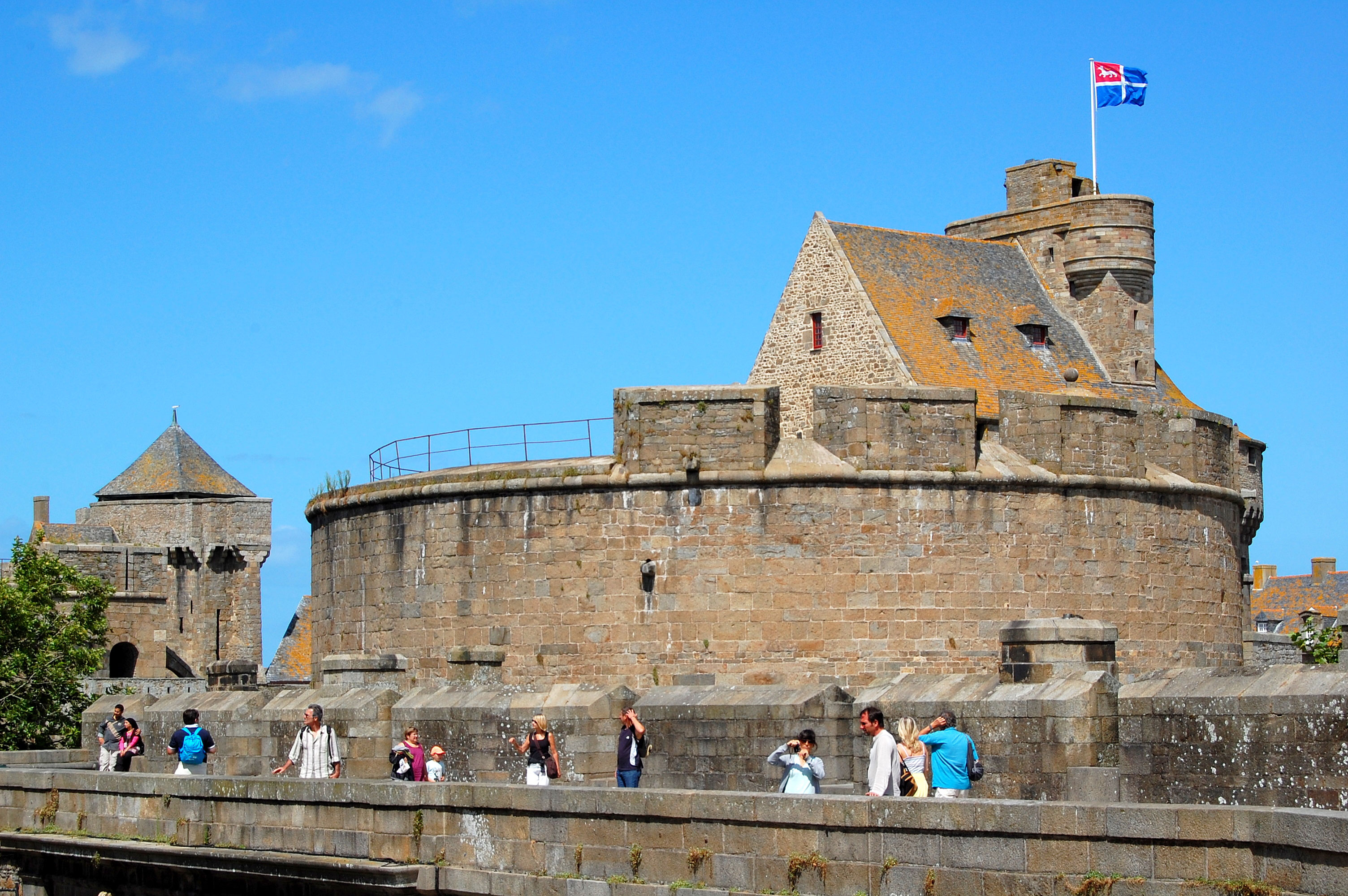 of Saint Malo (Brittany, France) La Générale tower and Qui Qu'en Grogne tower from the walls of the city